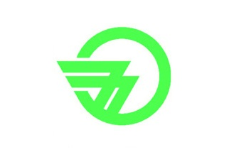 Flag of Gojo Nara